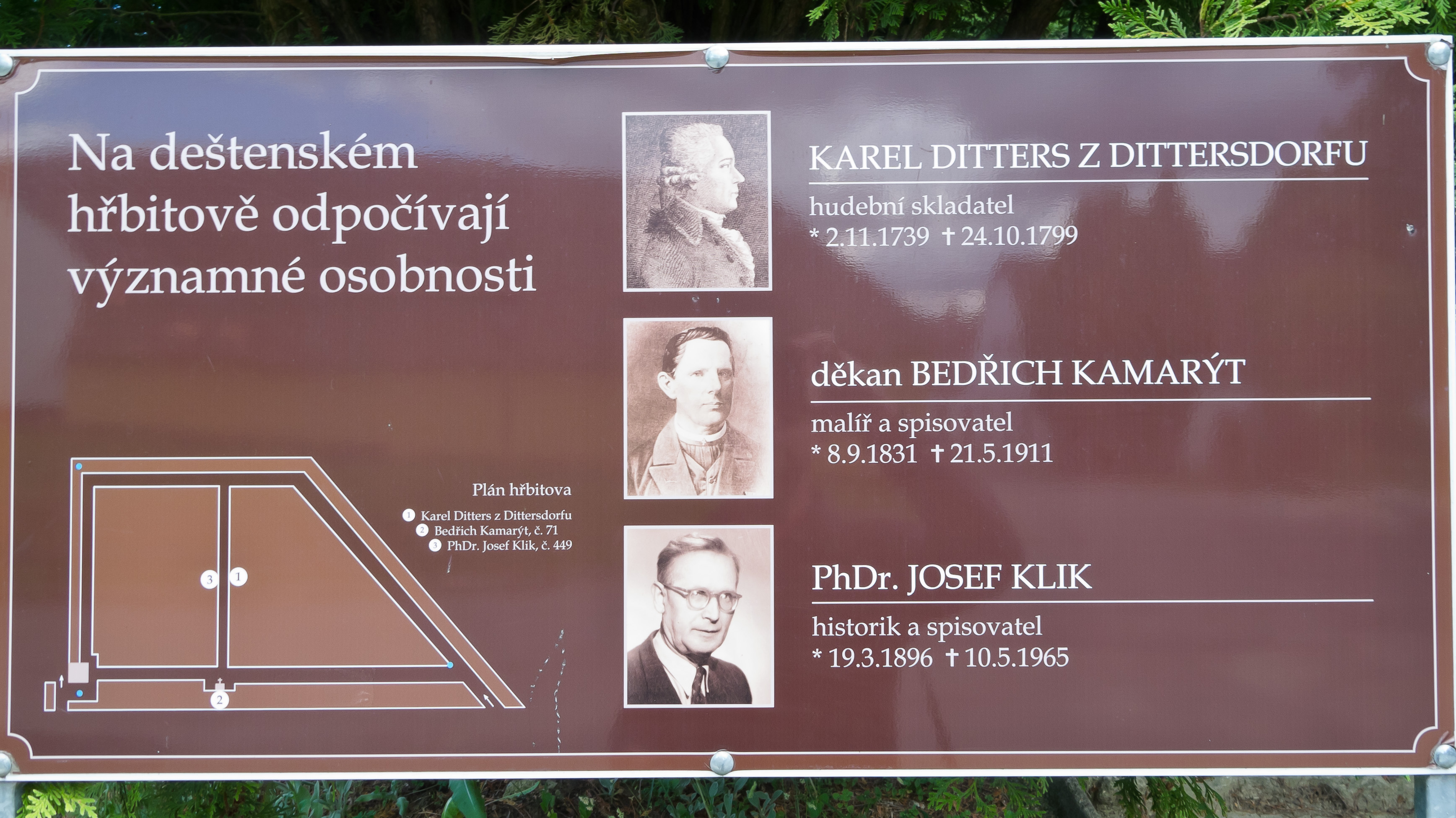 Positioning of composers tomb, other important personalities burried here are: dean Bedřich Kamarýt (painter and author) and Dr. Josef Klik (historian and author).